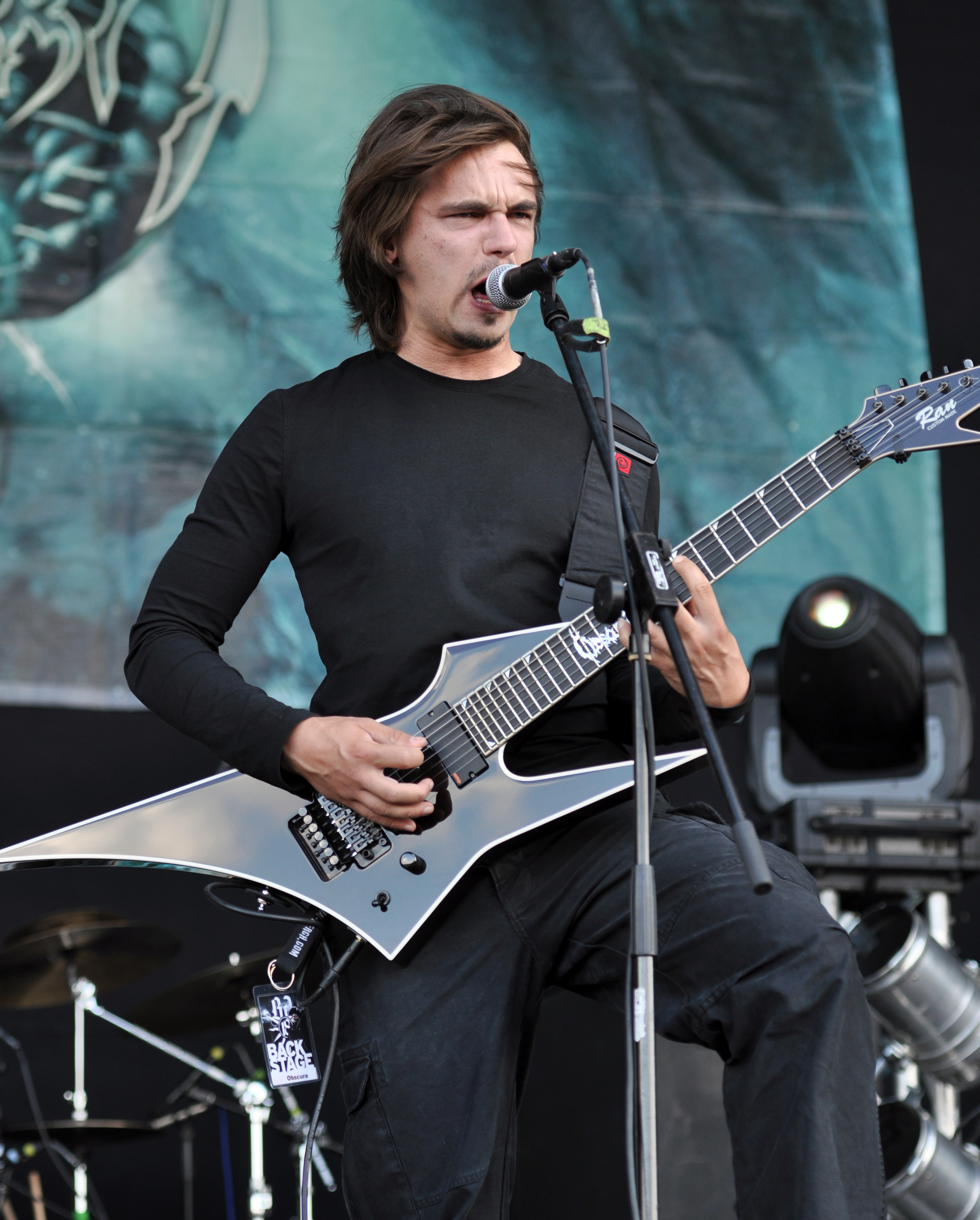 Obscura at Party.San Metal Open Air 2013